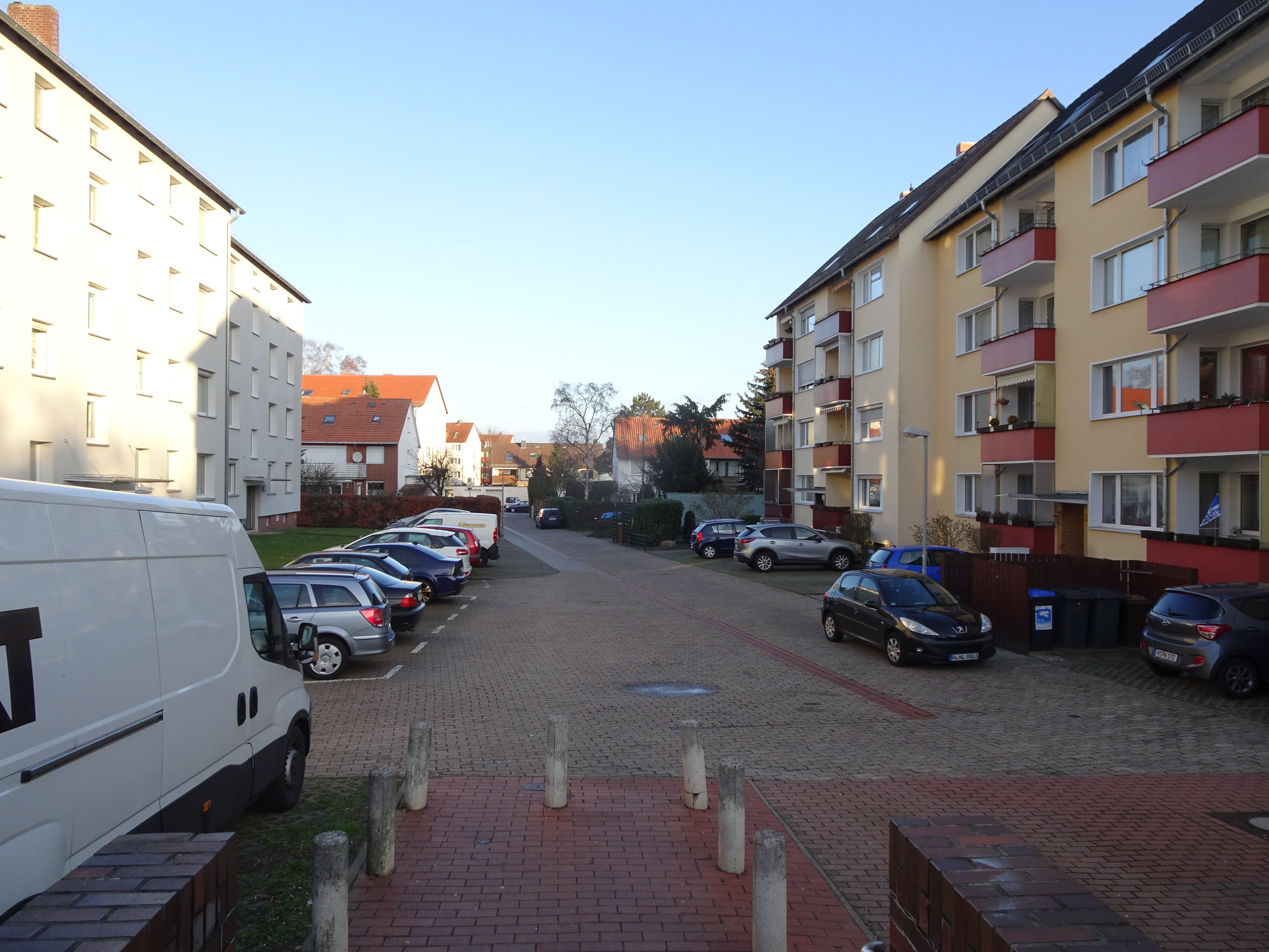 Street in Hannover, Germany